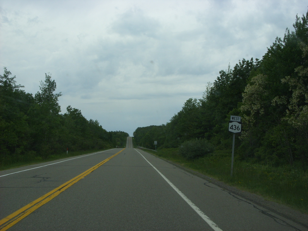 Westbound on New York State Route 436 in a hilly portion of the town of Nunda.